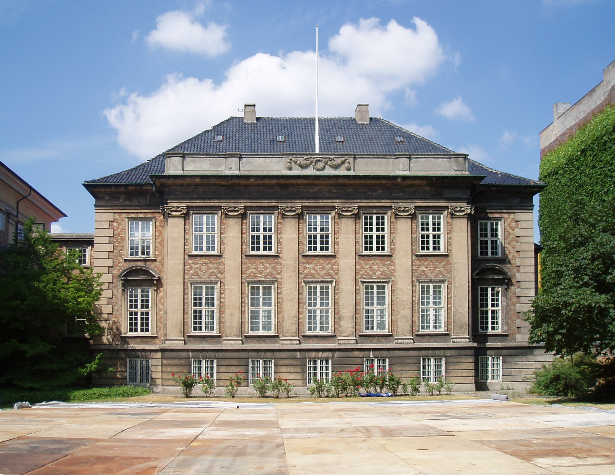 The High Court of Eastern Denmark. Seen from the garden at Bredgade to the facade facing east.